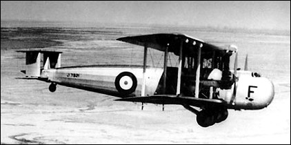 Vickers Type 264 Valentia cargo aircraft